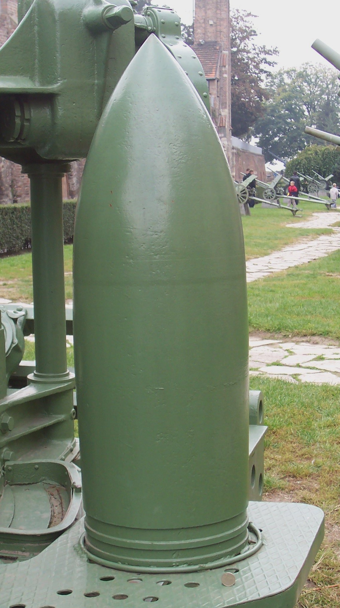 A shell for the Škoda 305 mm Model 1911 cannon. A 5 Serbian dinar coin (24mm in diameter) stands near the base for size comparison.